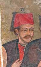 Saint Demetrius Church in Teshovo Mino, Marko and Teofil Minovi